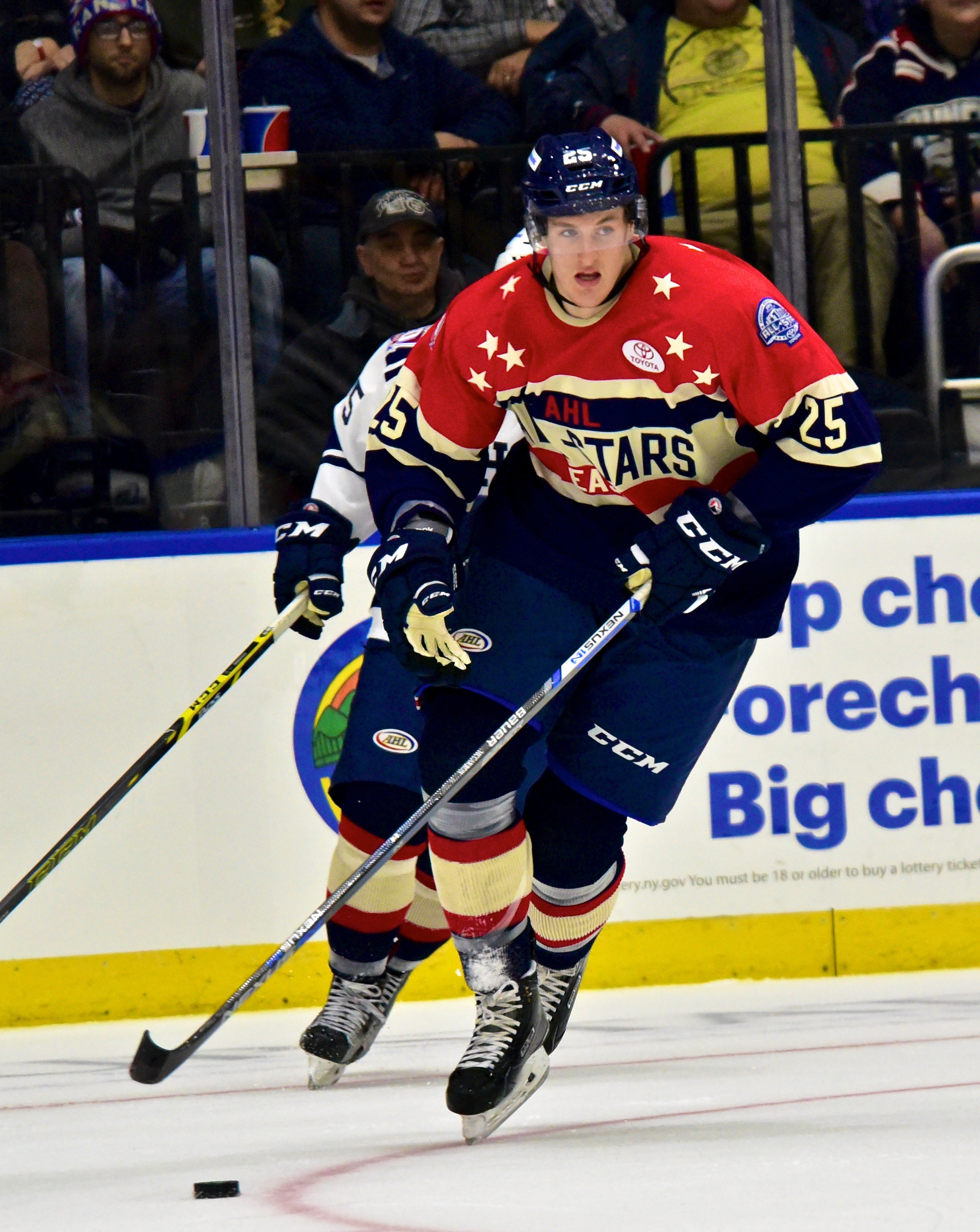 AHL All-Star Challenge Eastern Conference locker room at the War Memorial Arena in Syracuse, New York on Monday, February 1, 2016.